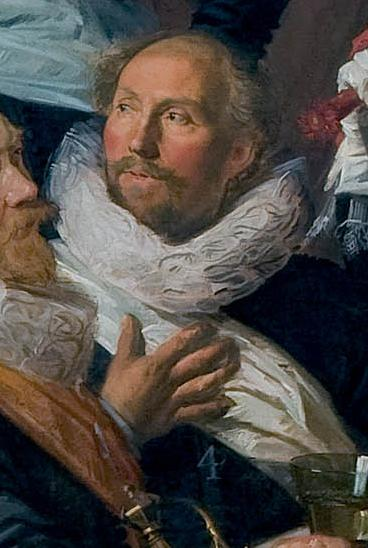 Captain Nicolaes Adriaensz. Verbeek, detail of Officers of the St. George Civic Guard, Haarlem